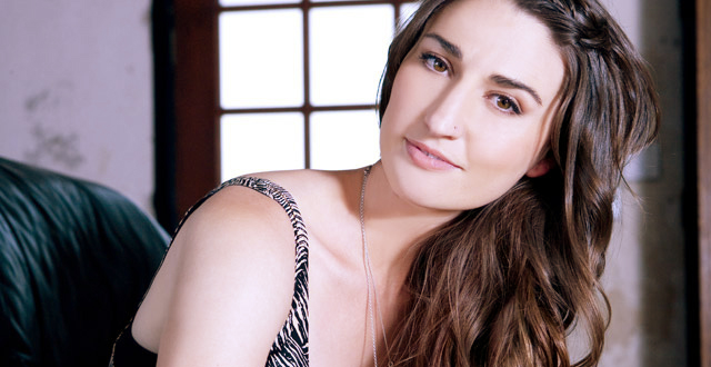 Sara Bareilles at the Walmart Soundcheck in August 2010.